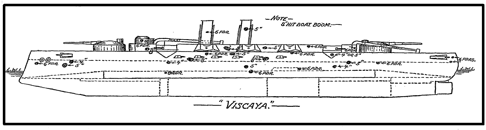 A picture extracted from a New York Times newspaper article dated April 23, 1899 (page 14) This picture is a diagram of a Vizcaya Cruiser, Spanish warship after the Battle of Santiago in the Spanish-American War. The diagram shows hits on the side of the vessel. NY Times headline: THE HITS AT SANTIAGO; Story of the Naval Battle as Told by Charts. TWO SHIPS LEAD THE LIST Cruiser Brooklyn and Battleship Iowa Made Seven-tenths of All Marks with Big Projectiles Source: [1] Source: [2]